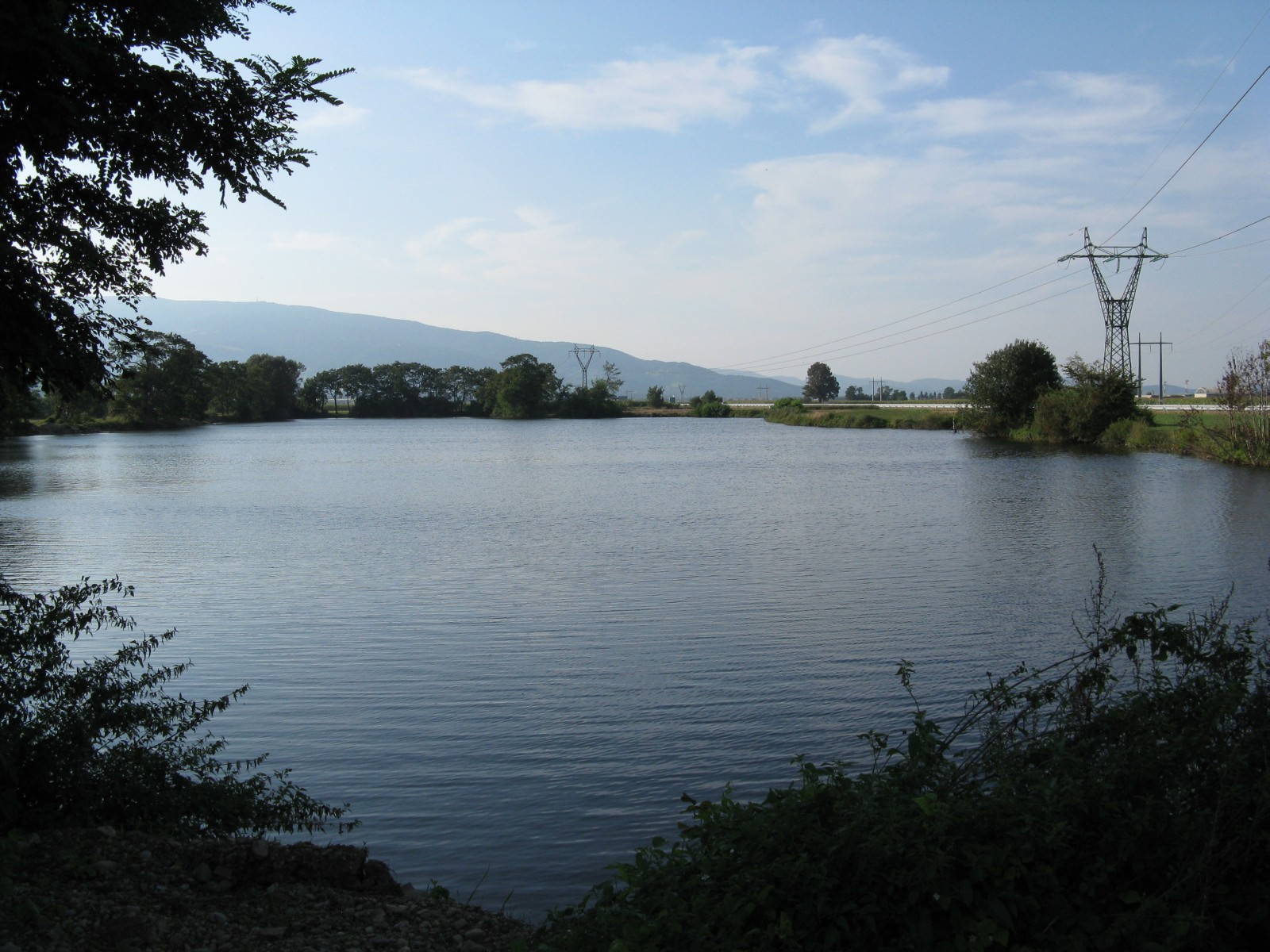 Pond at Hotinja Vas, Slovenia